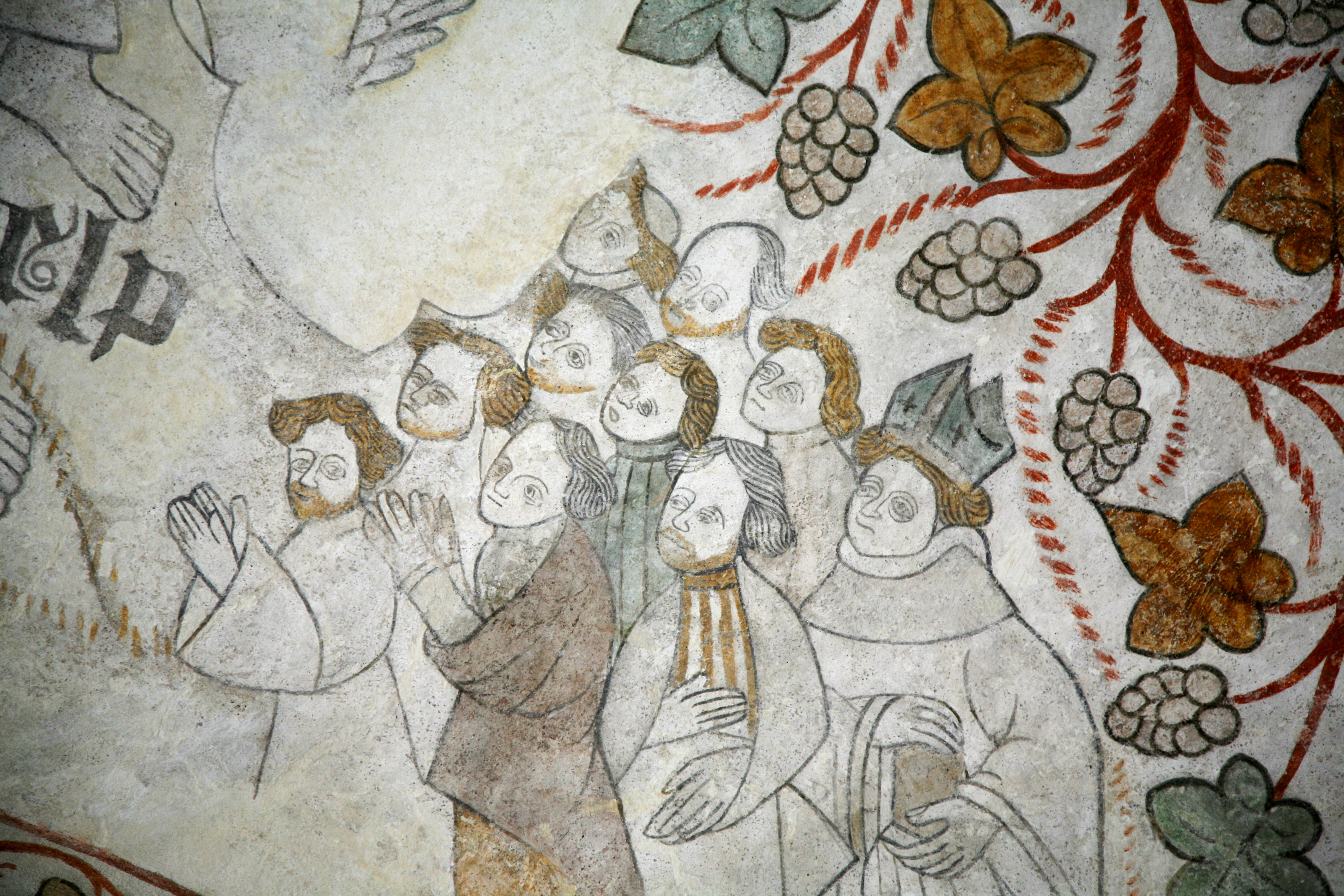 Fresco from 1400-10 by Martin Maler in Gerlev church near Slagelse, Denmark